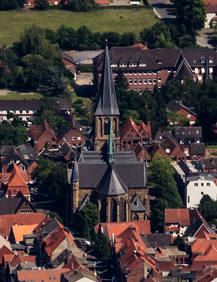 St. Lamberti Church, Ochtrup, North Rhine-Westphalia, Germany